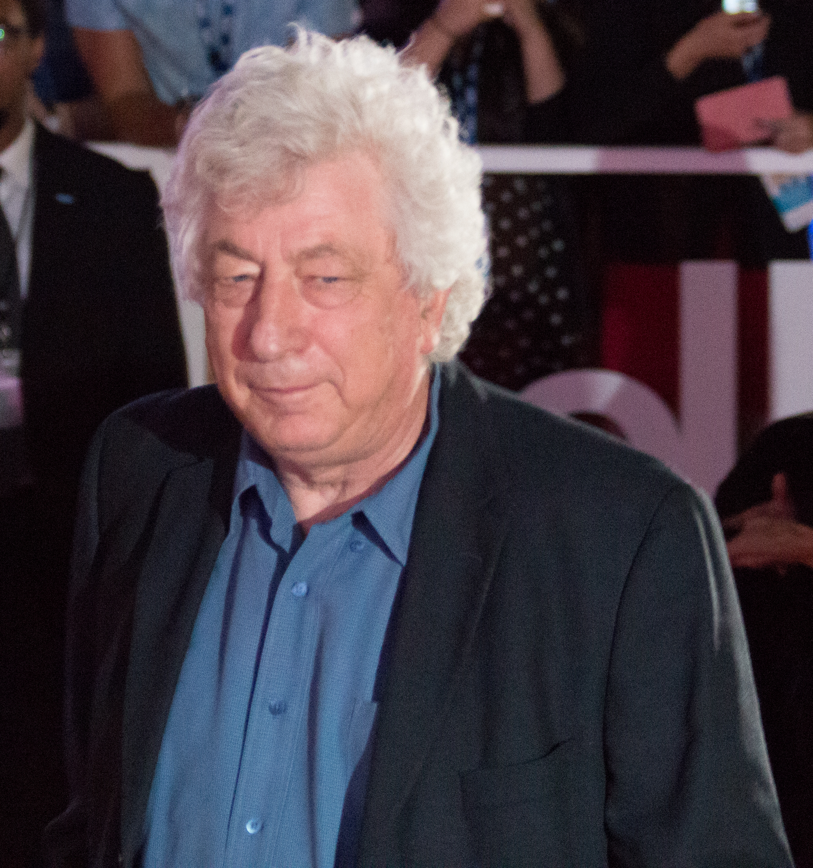 Producer Avi Lerner at the TIFF premiere of September Of Shiraz